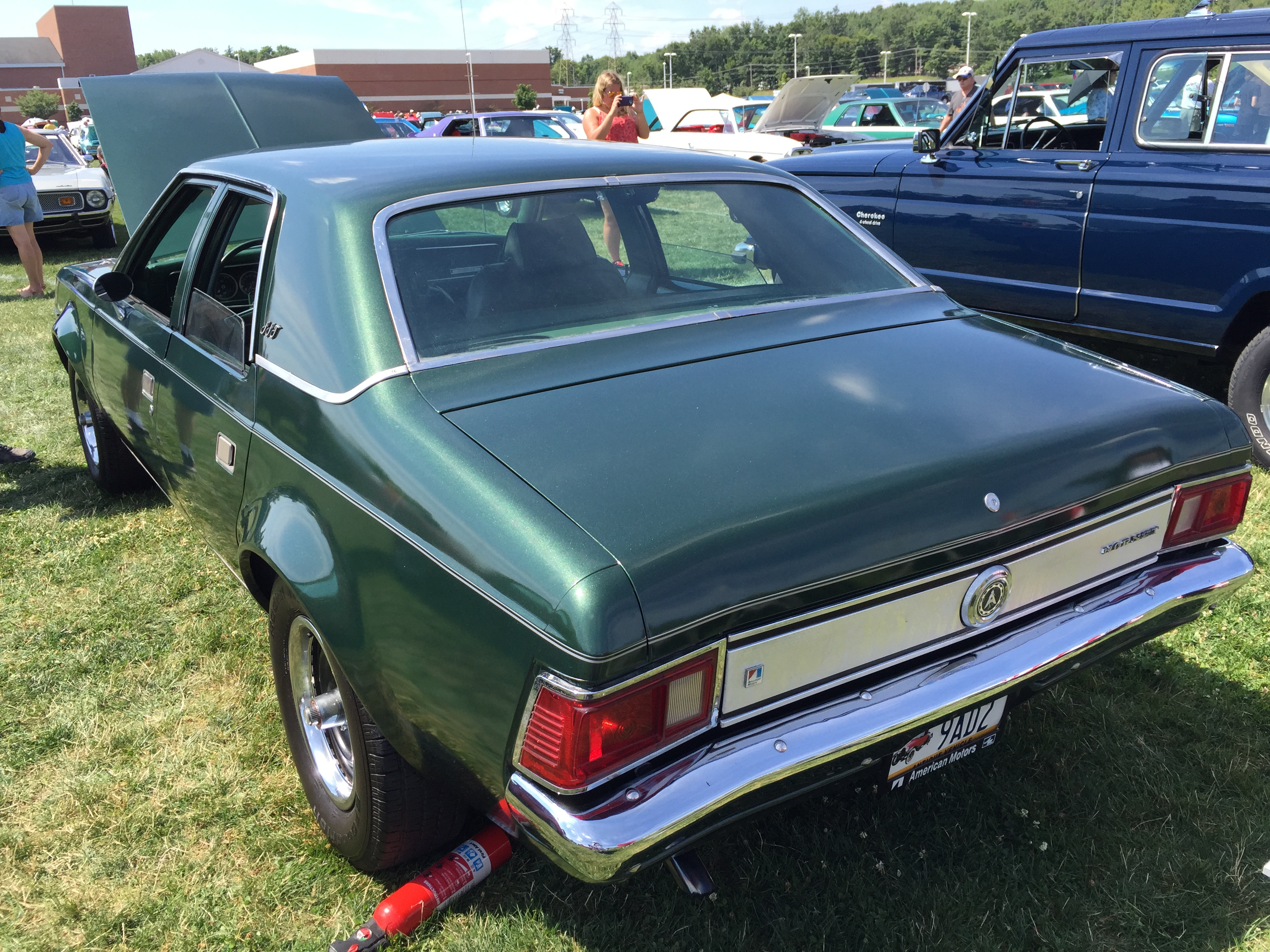 1972 AMC Hornet SST, a compact-sized four-door sedan built by American Motors Corporation. The SST was the top trim version for the Hornet line during the 1972 model year. Picture taken during the American Motors Owners Association (AMO) annual convention that was held July 2015 near Cleveland, Ohio.